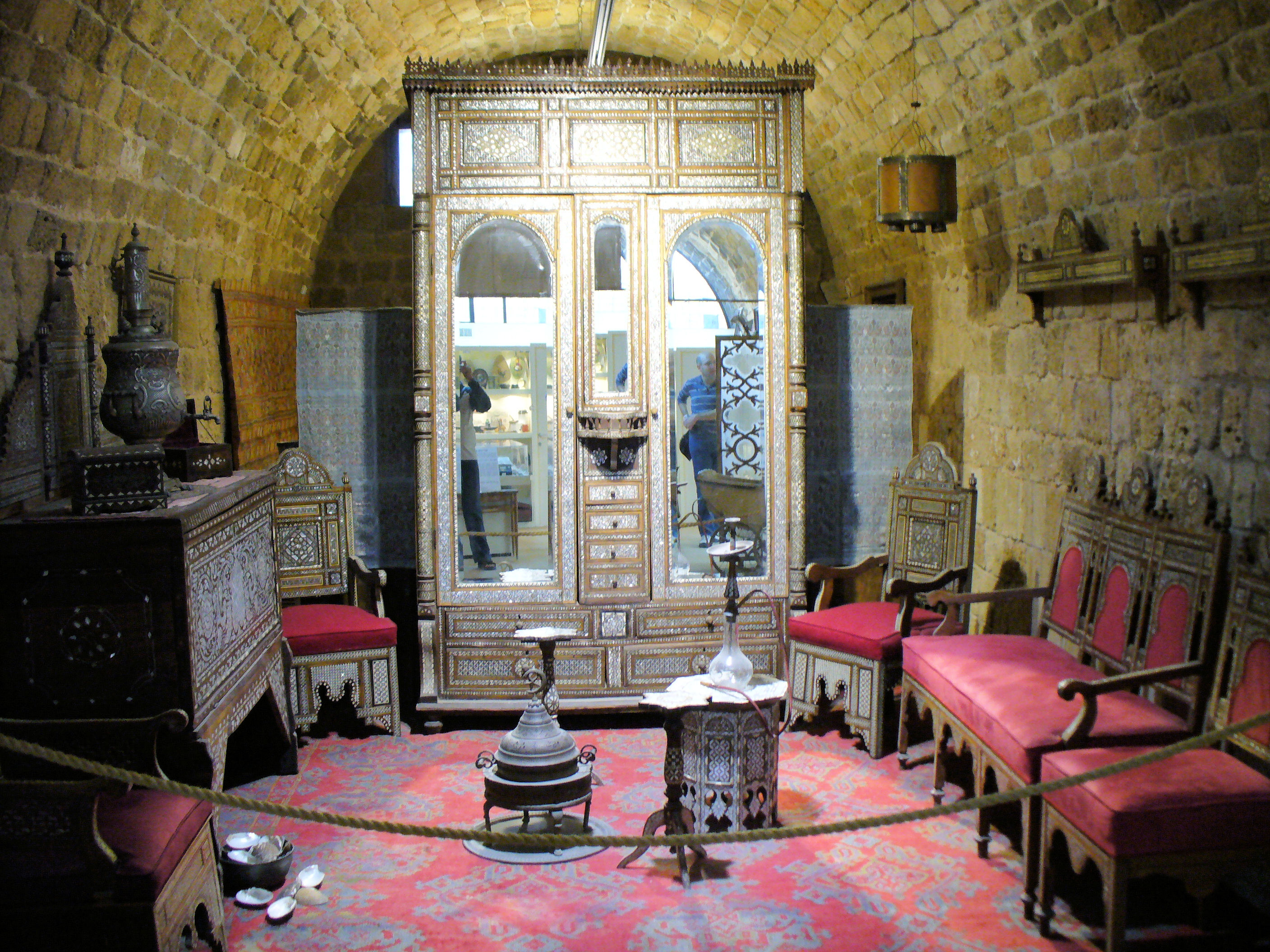 Treasures in the Walls, Ethnographic Museum, Acre, Israel